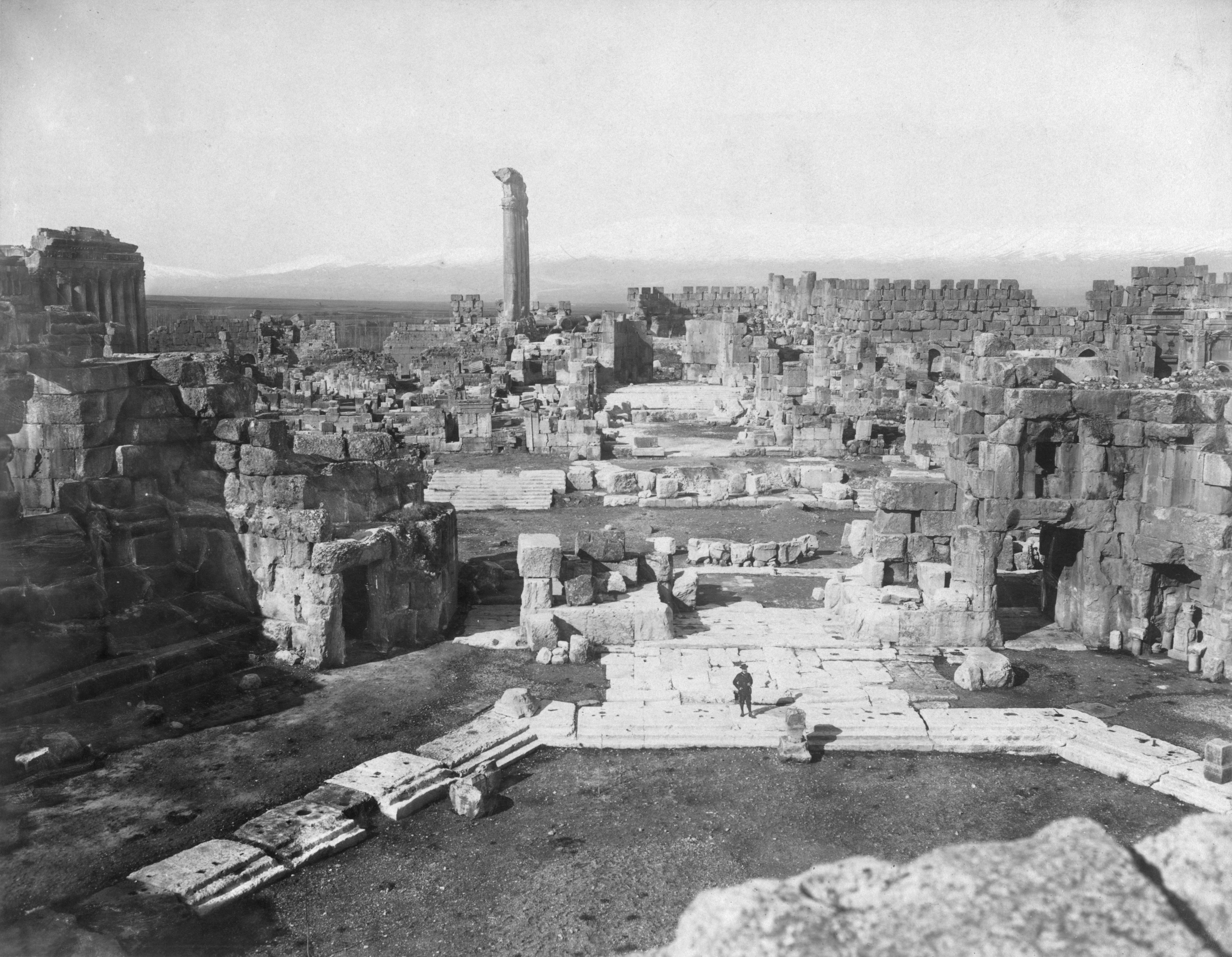 Baalbek. General view - late 1800s TITLE: Baalbek. General view CALL NUMBER: LOT 13560-2, no. 24 [P&P] REPRODUCTION NUMBER: LC-DIG-ppmsca-04956 (digital file from original) No known restrictions on publication in the U.S. Use elsewhere may be restricted by other countries' laws. For general information see "Copyright and Other Restrictions..." ( MEDIUM: 1 photographic print. CREATED/PUBLISHED: [between 1860 and 1900] Title from item. No. 400. FORMAT:Aerial views 1860-1900. Photographic prints 1860-1900. REPOSITORY: Library of Congress Prints and Photographs Division Washington, D.C. 20540 USA DIGITAL ID: (original) ppmsca 04956 CARD #: 2004674256